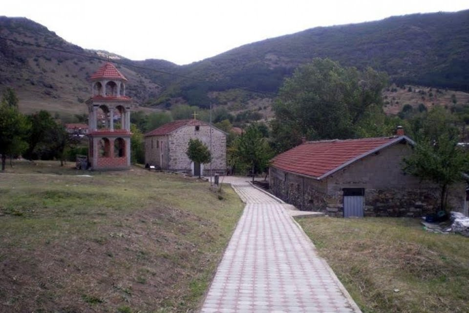 Church Nativity of the Theotokos in Štavica